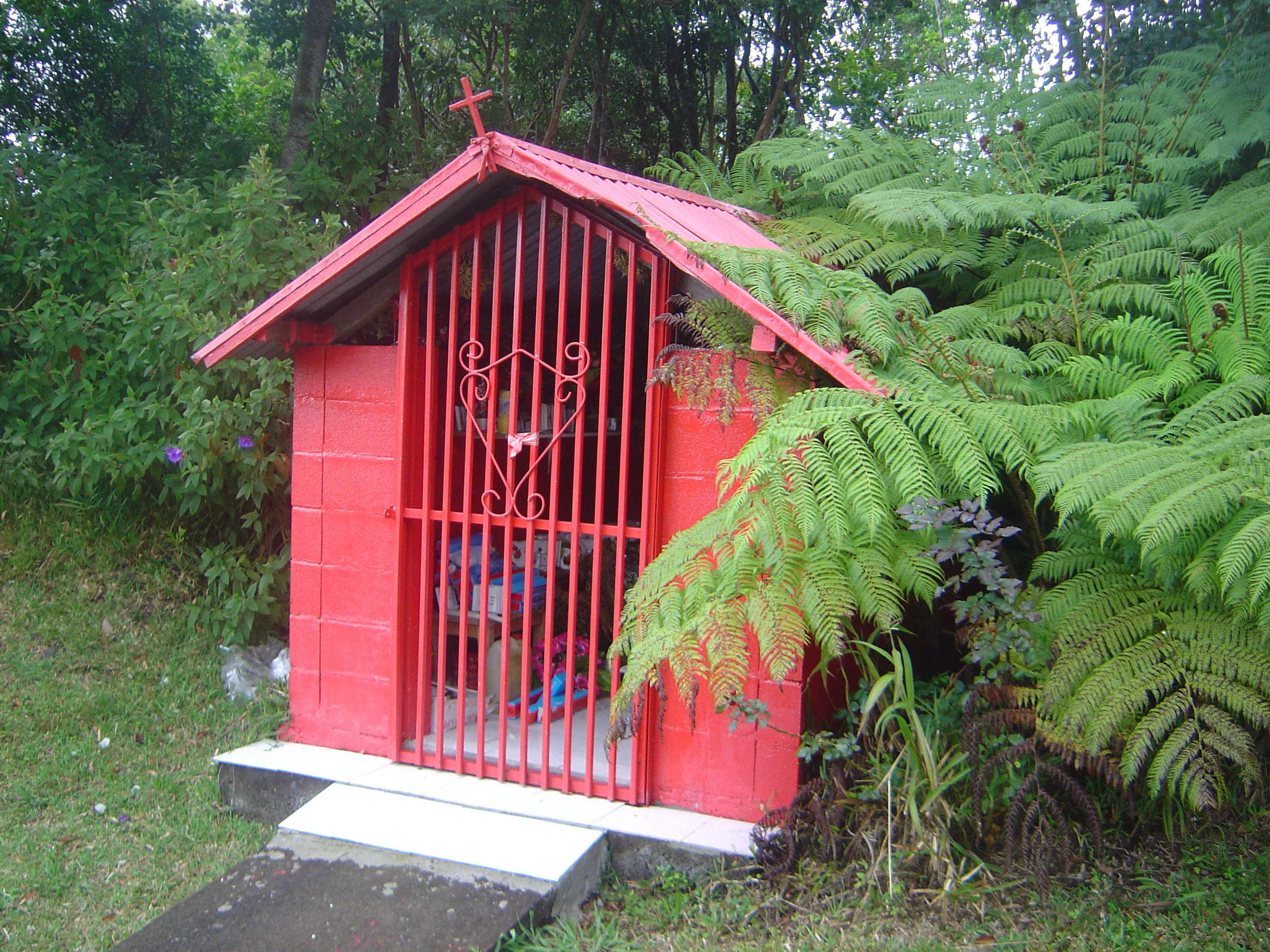 An altar to Saint Expédit (a local following) on the Petit Serré on Réunion Island.